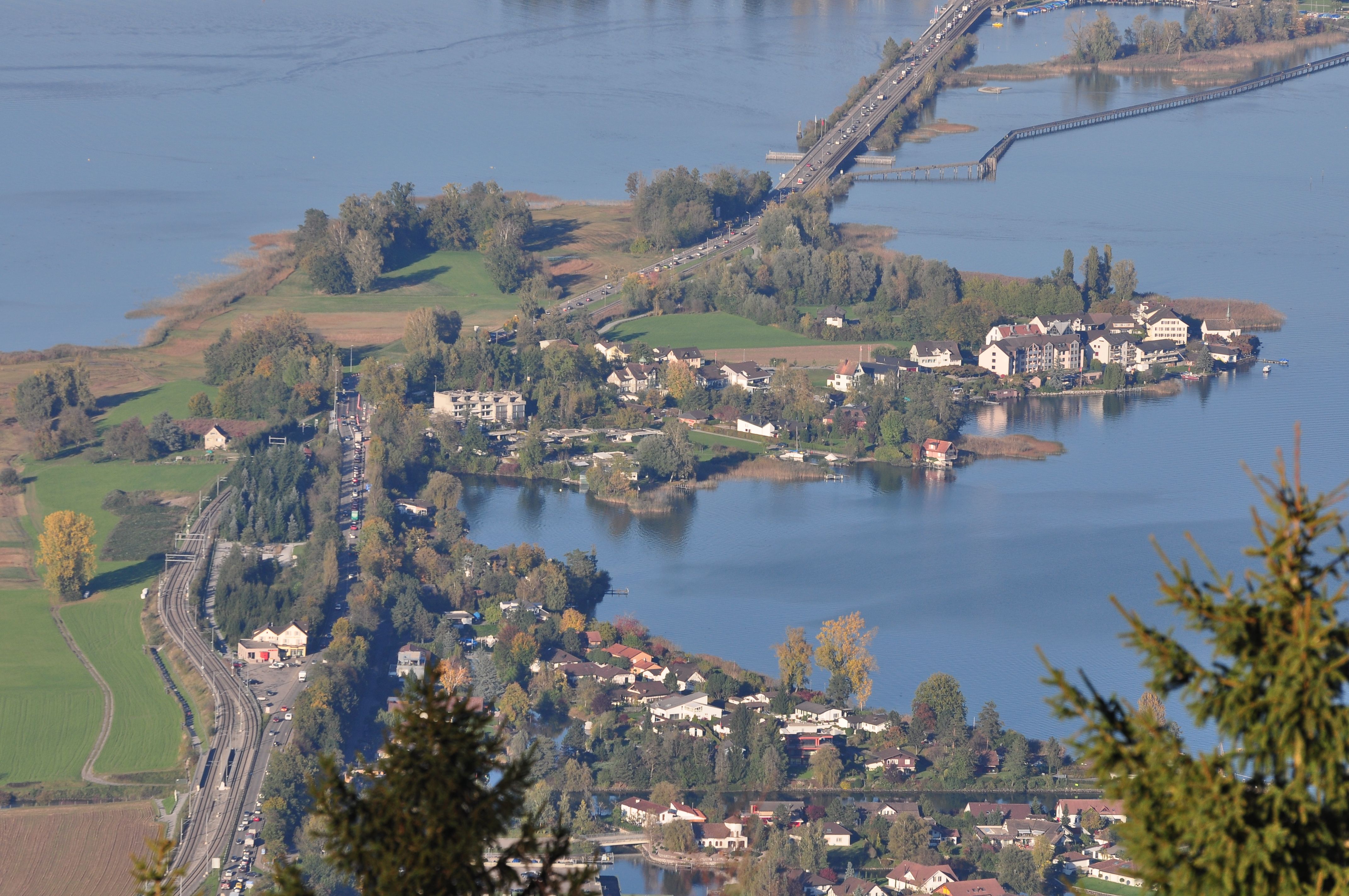 Hurden as seen from Etzel Kulm in Switzerland, Seedamm and Holzbrücke in the background, Zürichsee and Frauenwinkel protected area to the left, Obersee to the right, Seedamm and Holzbrücke in the background.